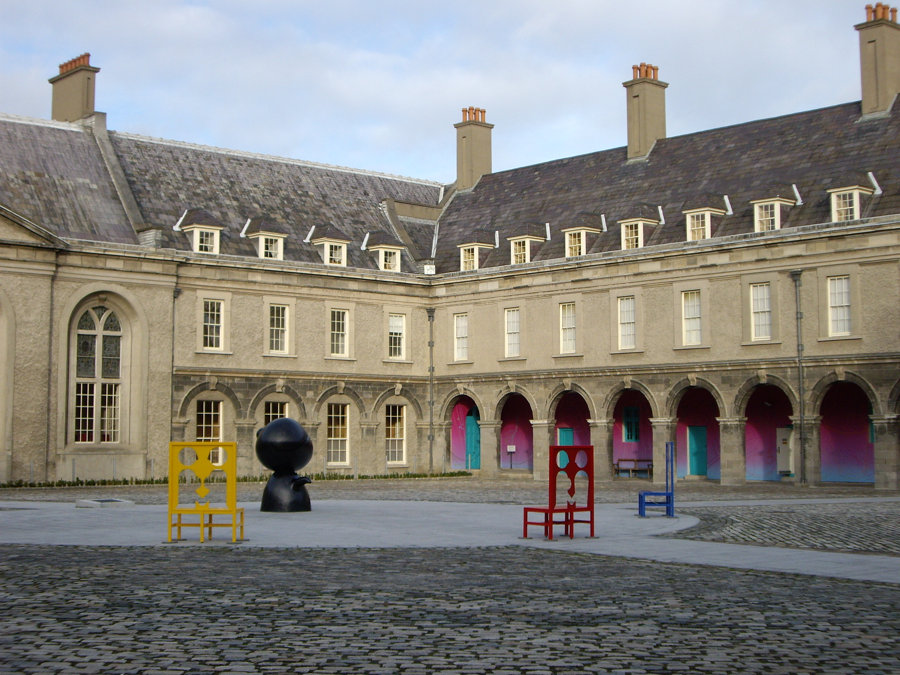 Courtyard of Irish Museum of Modern Art, Royal Hospital Kilmainham, Dublin, Ireland